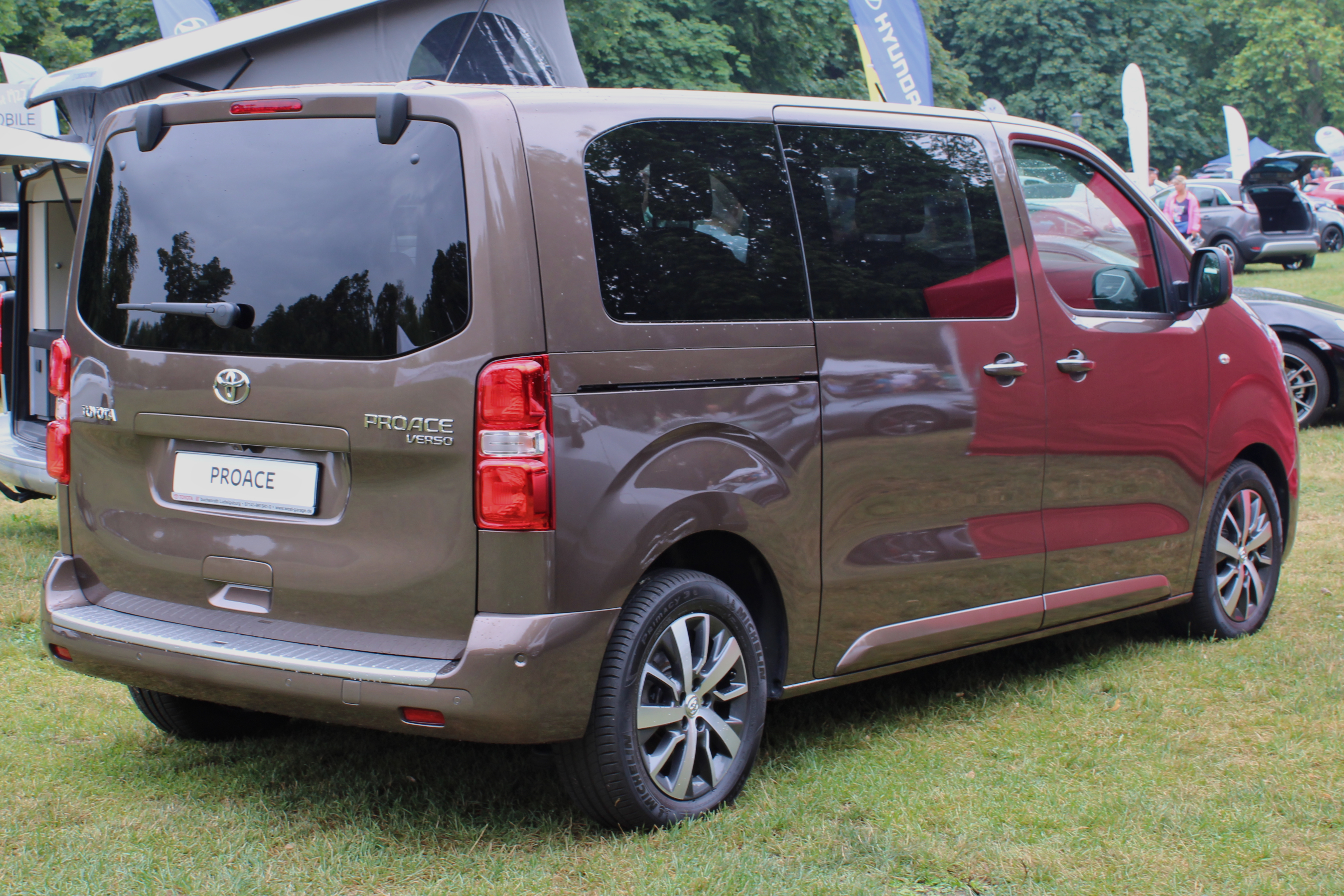 Toyota ProAce Verso at Schloss Monrepos 2019